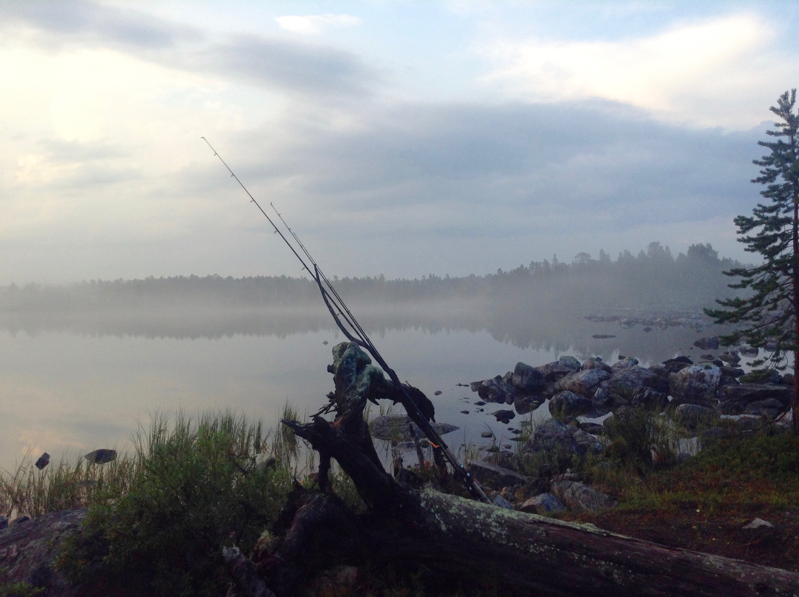 Fishing rods by the shore of Lake Inari, in the Vätsäri Wilderness Area, Inari, Finland.